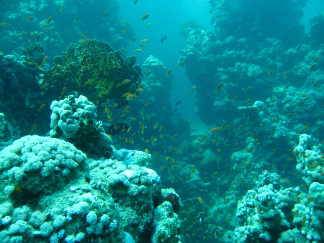 Port Ghalib, Egypt